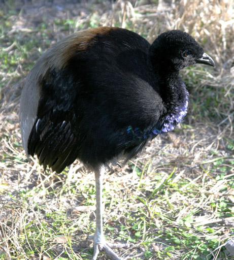 Grey-winged Trumpeter, Psophia crepitans, captive bird. Location: Jacksonville Zoo, Jacksonville, Florida, United States